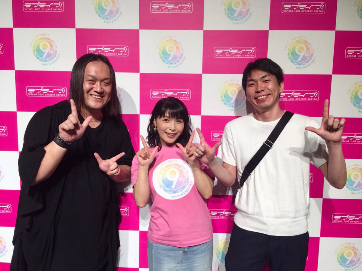 木皿陽平（イベント会場にて：左の男性）